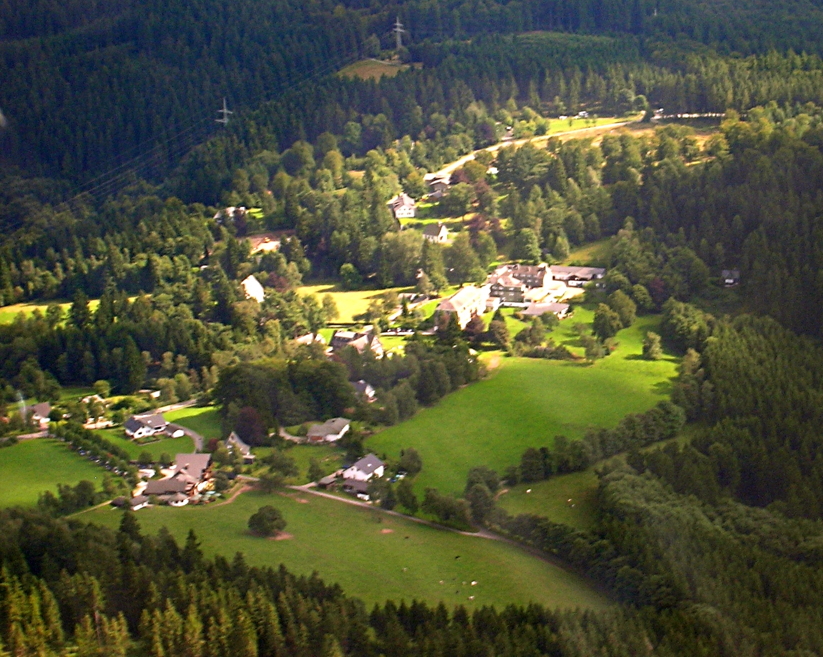 Jagdhaus near Schmallenberg, Germany